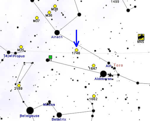 map of NGC 1746. Taken from Perseus, all right released to the author (as written in Readme file).